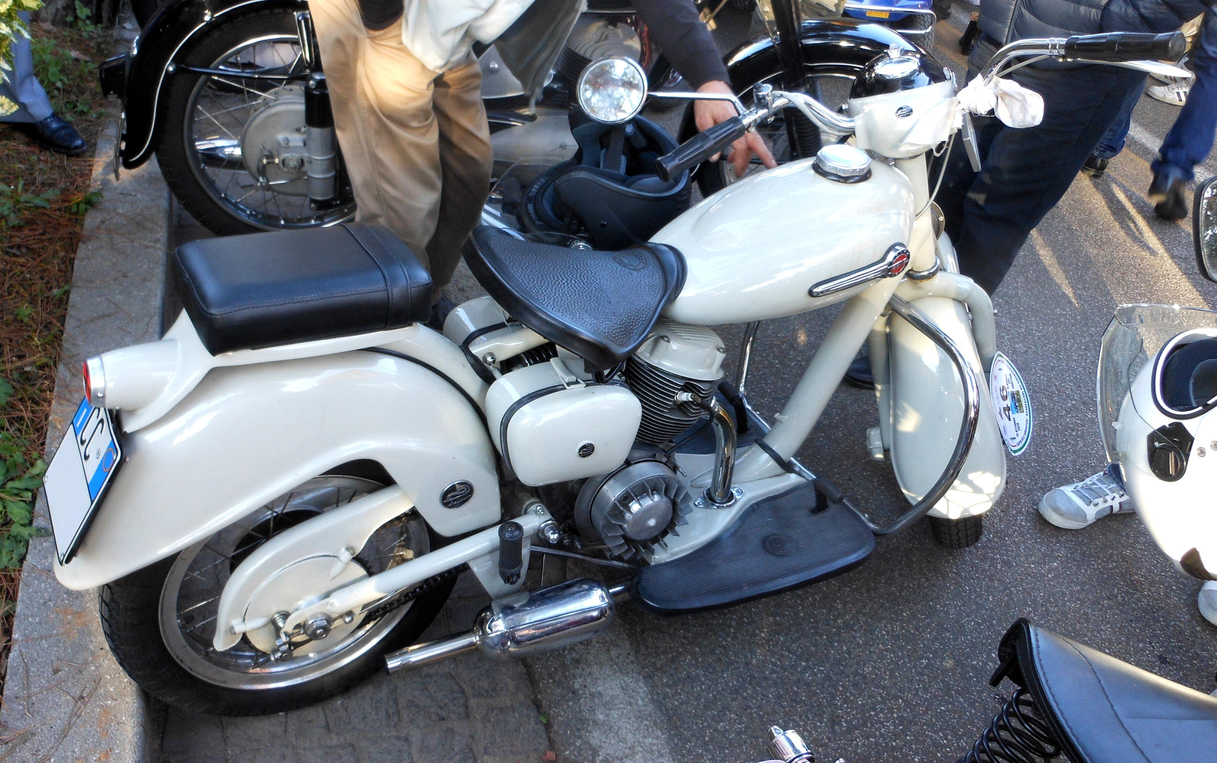 A Motom Delfino in Rimini